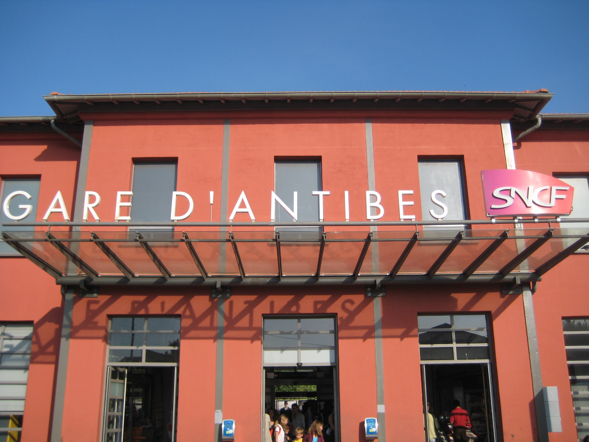 Description gare Antibes Date22 October 2011Sourcemon appareil photoAuthorAimelaimePermission (Reusing this file) gare Antibes